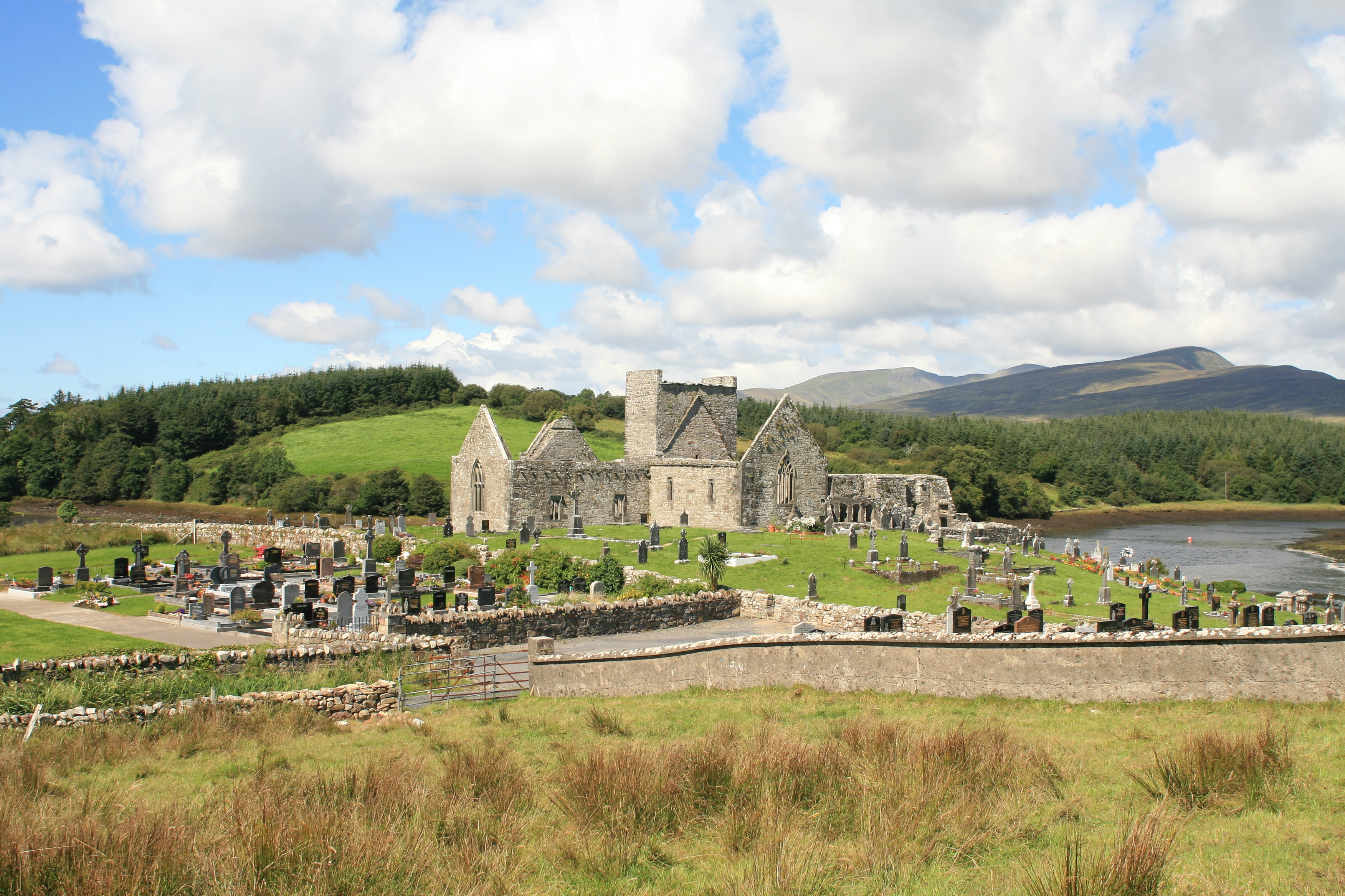 Burrishoole, County Mayo, Ireland View of Burrishoole Priory, as seen from a small hill southeast of it. The water to be seen left and right of the monastery belongs to the Burrishoole Channel that connects the Lough Feeagh and Furnace Lough to the Newport Bay. The mountain in the background at the right side of the picture is An Bhinn Ghorm (or Bengorm, 582 metres) that belongs to the Nephin Beg Range.